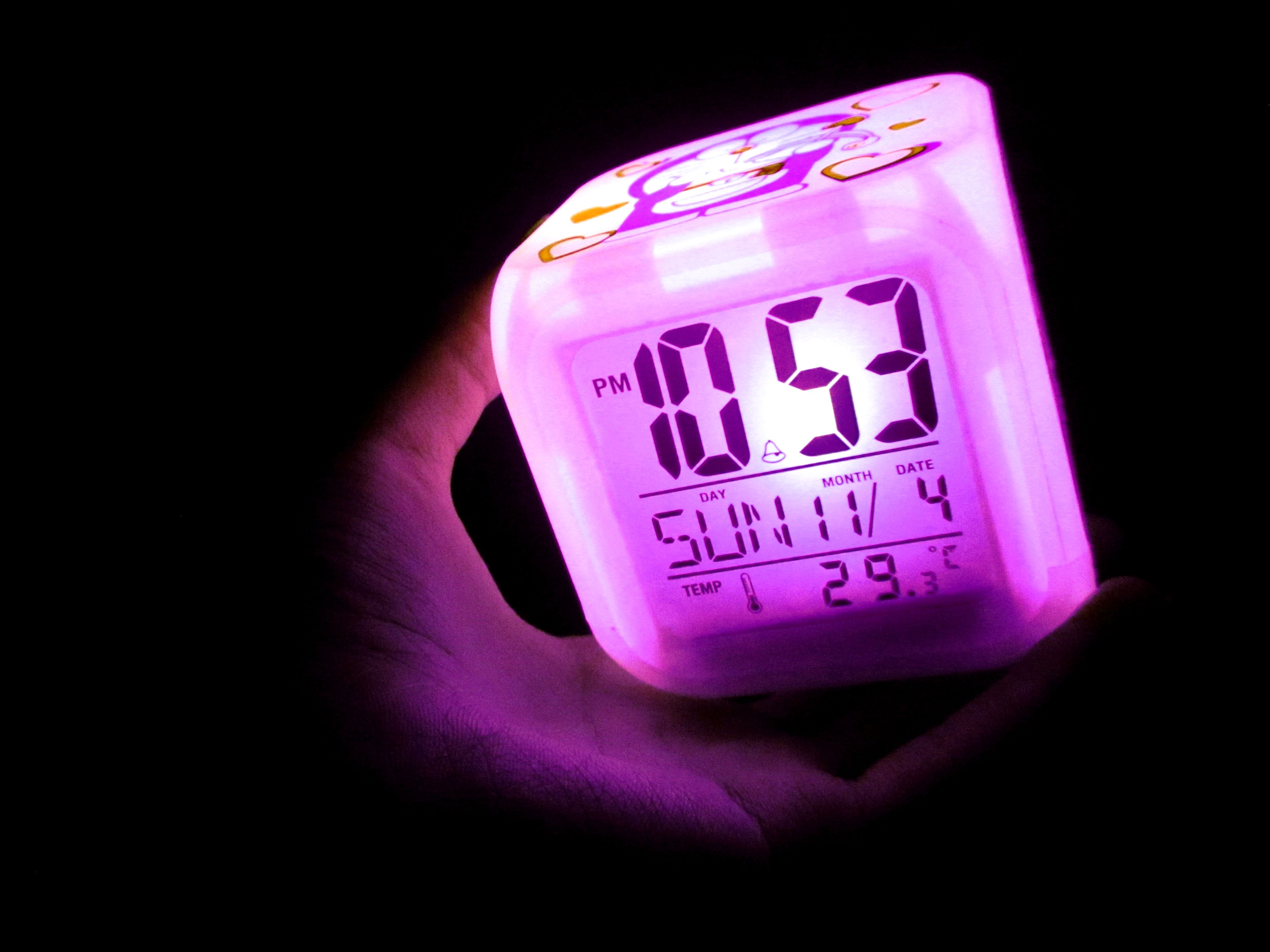 a digital light clock that features time, date, temperature, alarms and stopwatch